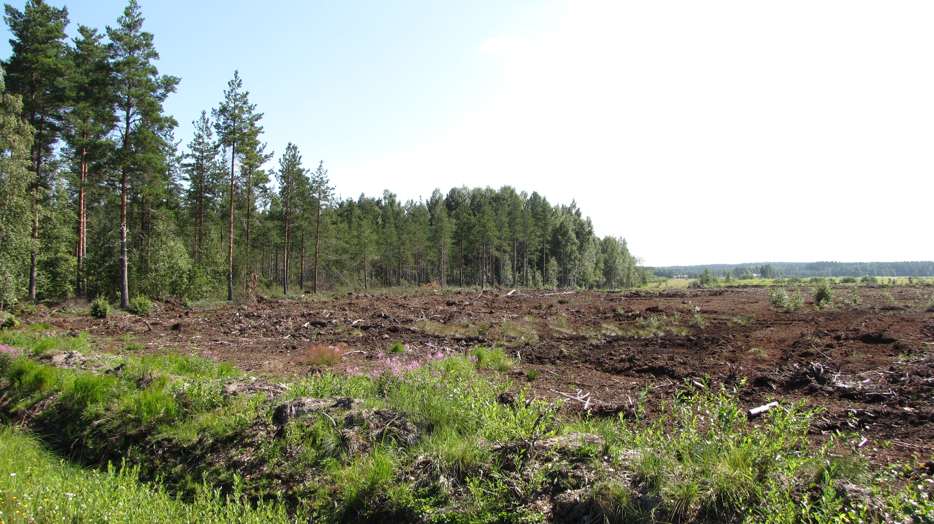 Parjakanneva in Kauhajoki, Finland.